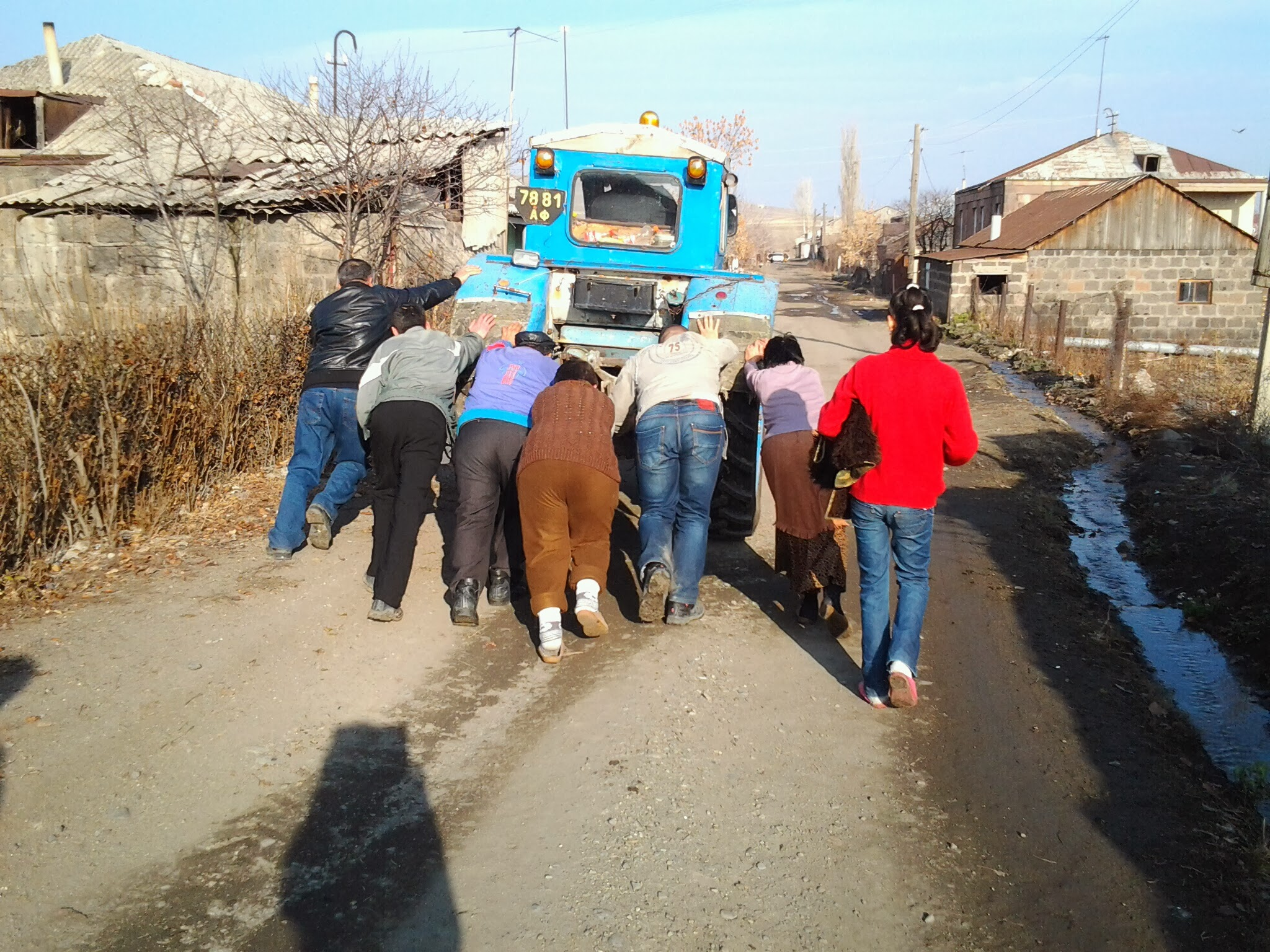 Villagers of Akhurik trying to push the old tractor.